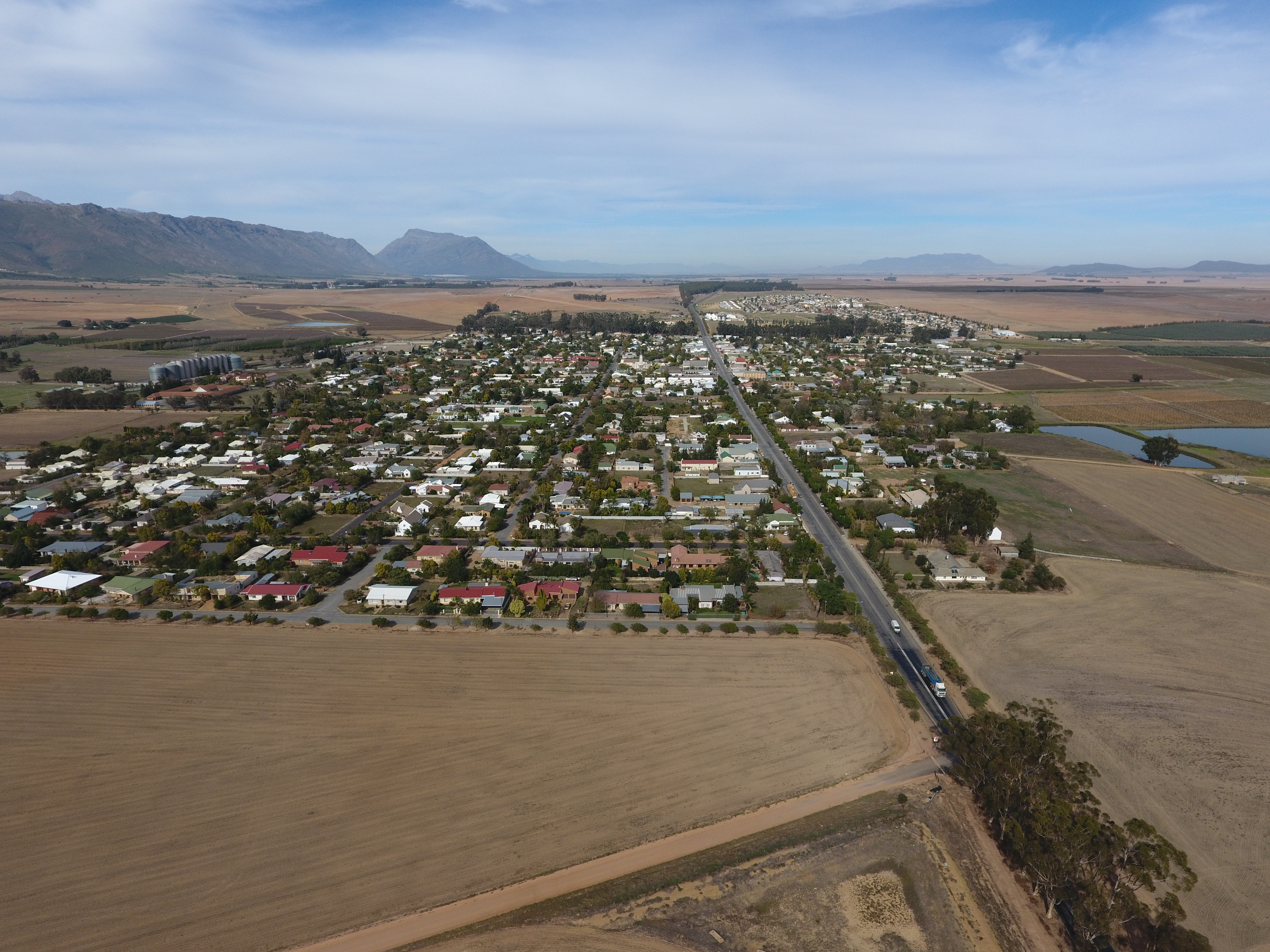 An aerial photograph of Porterville, South Africa looking south with the N44 road running through the town. The Grootwinterhoek mountains can be seen in the distance on the left.